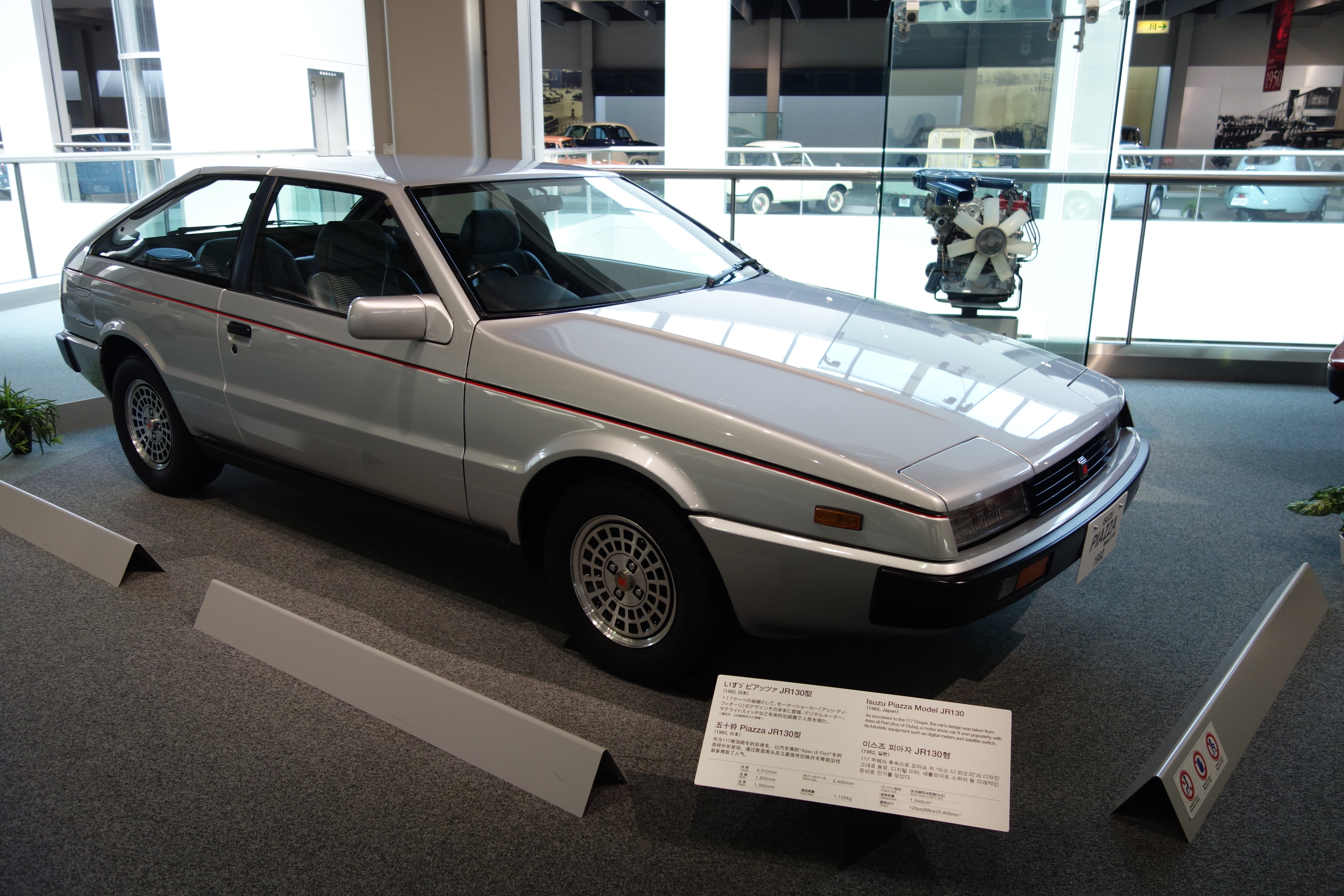 Isuzu Piazza (JR120) XE in Toyota Automobile Museum.